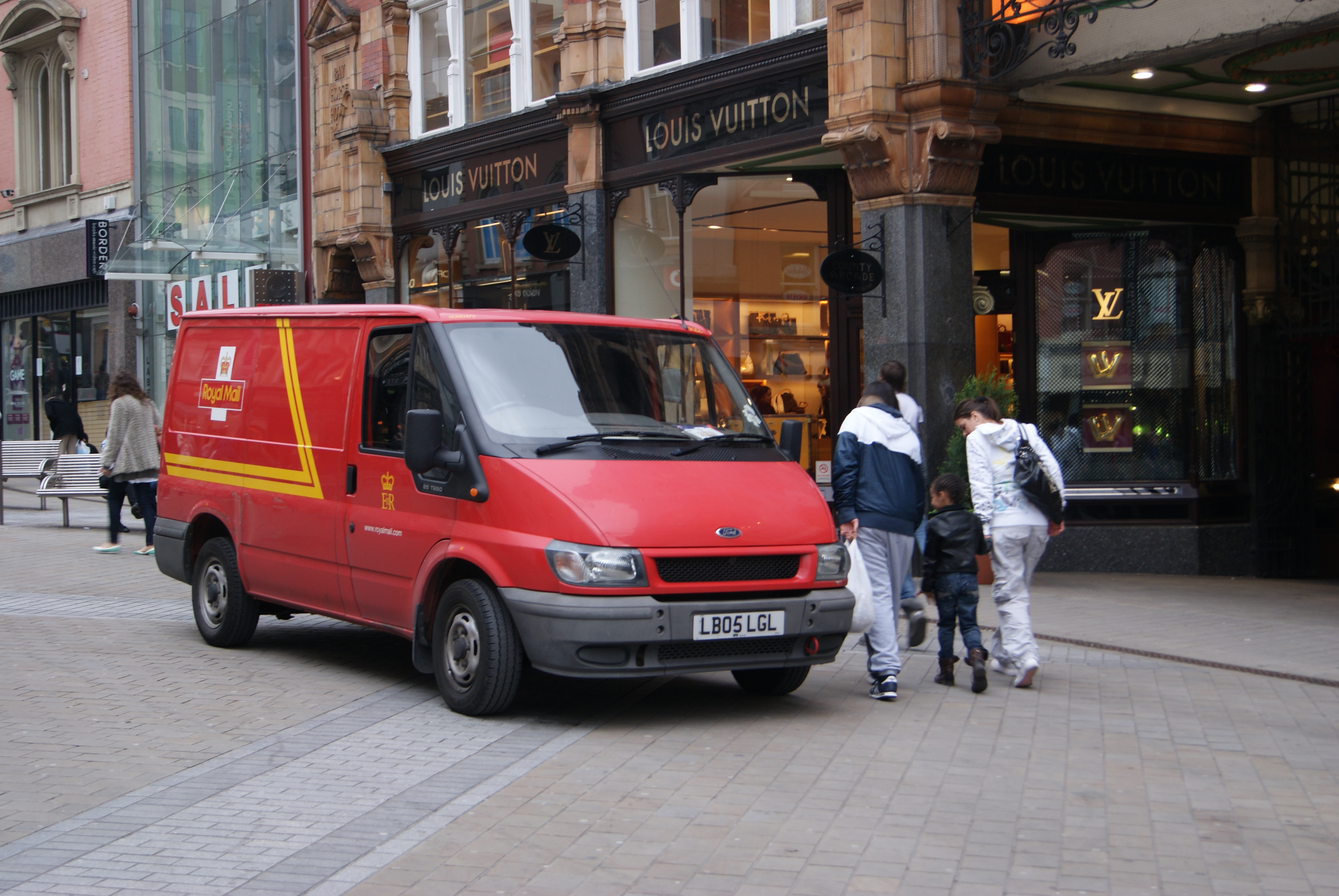 A Royal Mail Ford Transit van parked on Briggate in Leeds, West Yorkshire. Taken on the afternoon of Tuesday the 4th of May 2010.